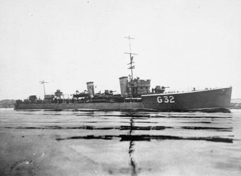 Photograph of British S class destroyer HMS Scythe.